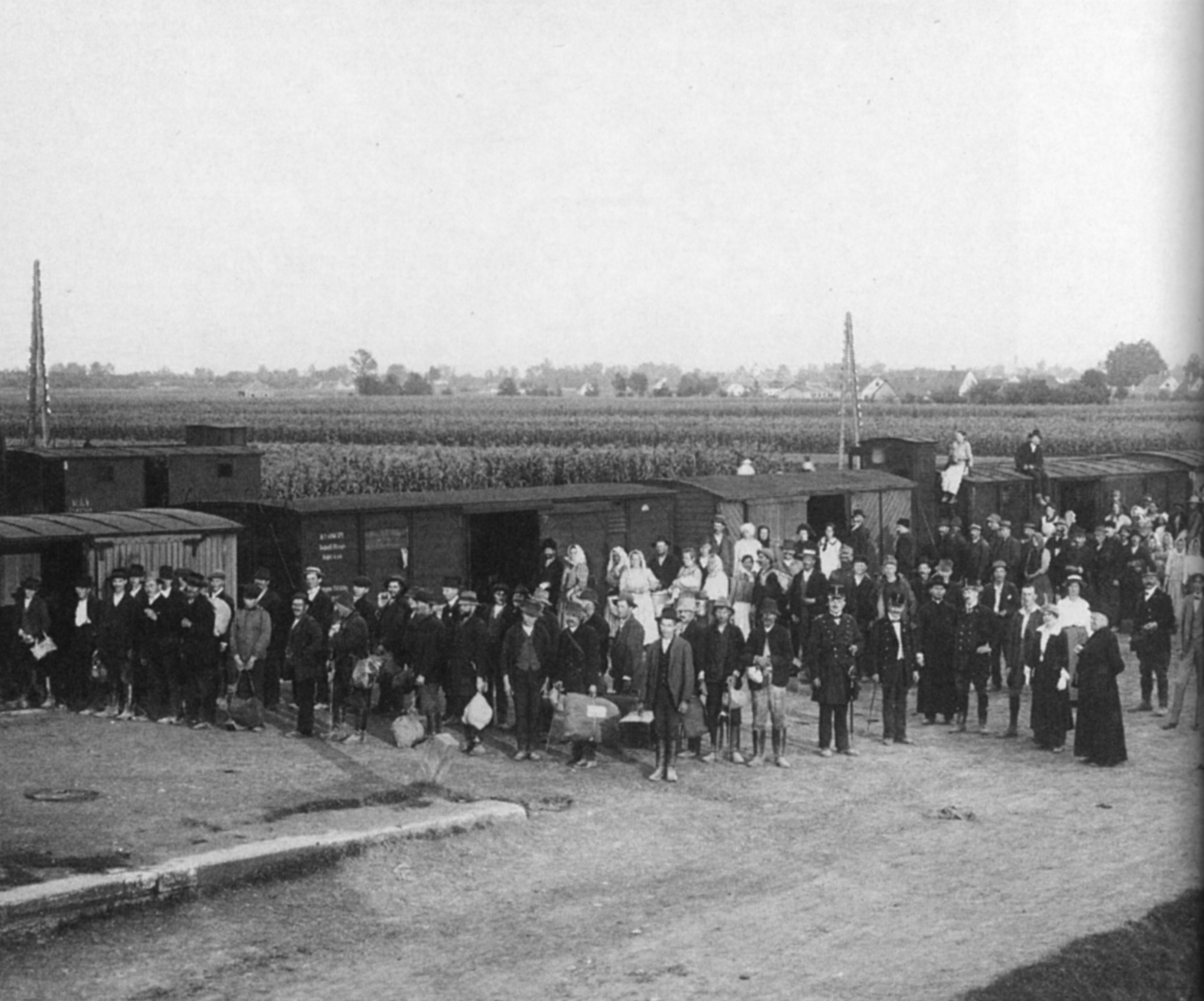 Petschar, Friedlmeier, Steiermark in alten Fotografien, Ueberreuther Verlag Wien. Scanprojekt Community Projektbudget 2012 This scan or this PDF-file was created within the GLAM-project Bookscanning, supported by Wikimedia Germany and Wikimedia Austria as a part of the community-project to capture books, documents and pictures which are not eligible to copyright or for which the copyright has expired. This document describes or depicts an object which is located in Austria today. Texts are written German language. Send requests for uncompressed scans to Hubertl. This work is in the public domain in its country of origin and other countries and areas where the copyright term is the author's life plus 100 years or less. You must also include a United States public domain tag to indicate why this work is in the public domain in the United States. This file has been identified as being free of known restrictions under copyright law, including all related and neighboring rights.